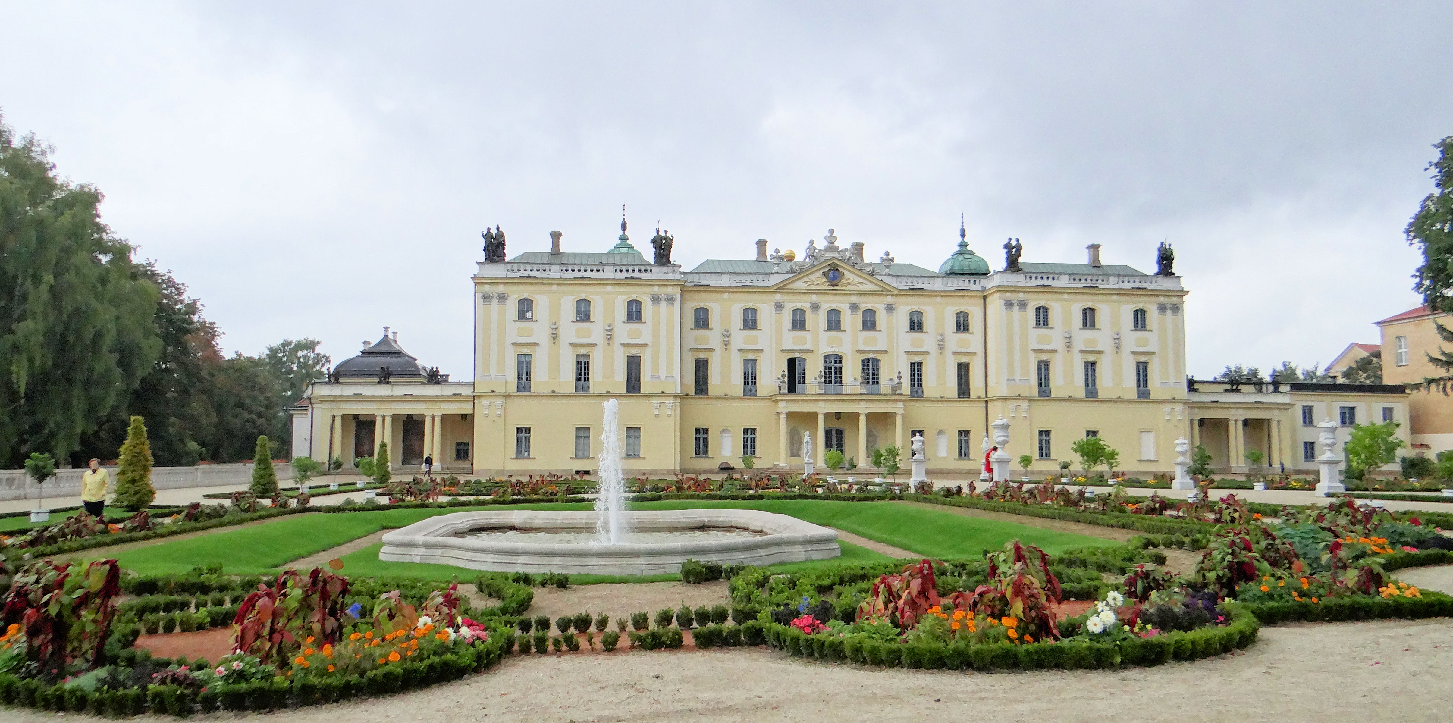 Garden of the Branicki Palace in Białystok